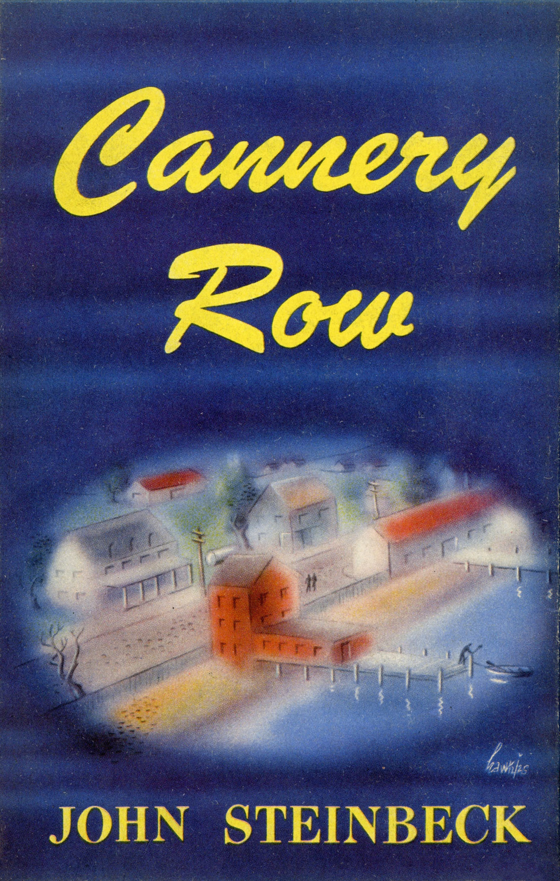 First-edition dust jacket cover of Cannery Row (1945) by the American author John Steinbeck.